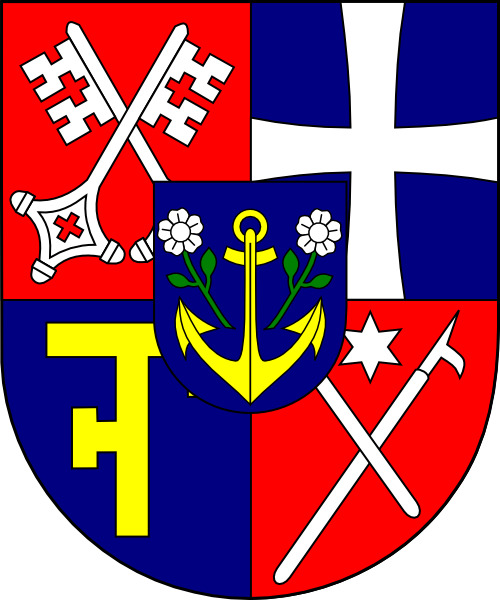 Coat of arms (shield only) of Wilhelm Weskamm, bishop of Berlin (1951-1956).